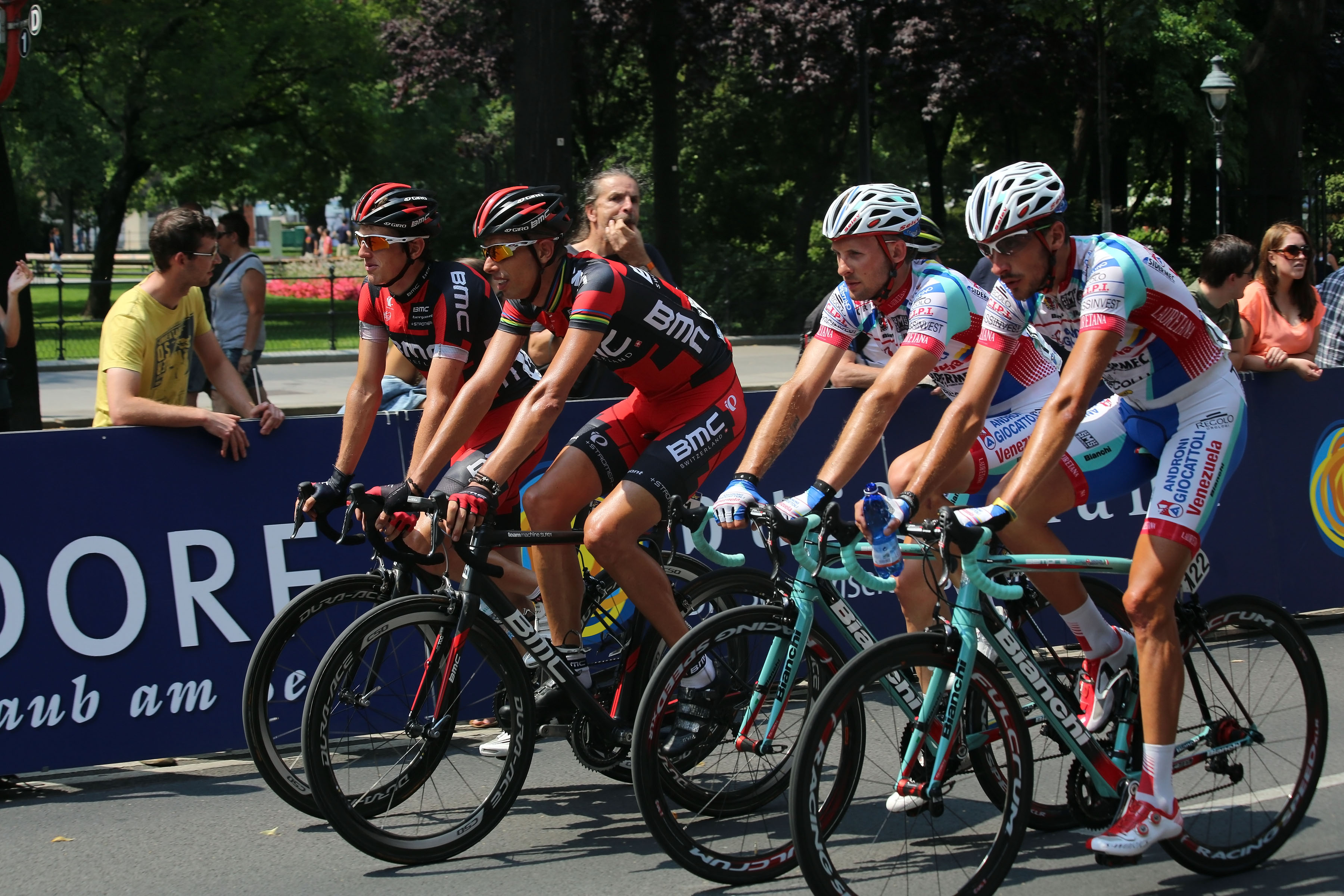 l.t.r.: Mathias Frank, Alessandro Ballan, Marco Frapporti and Riccardo Chiarini after finishing the final stage of the Tour of Austria in Vienna, Austria.